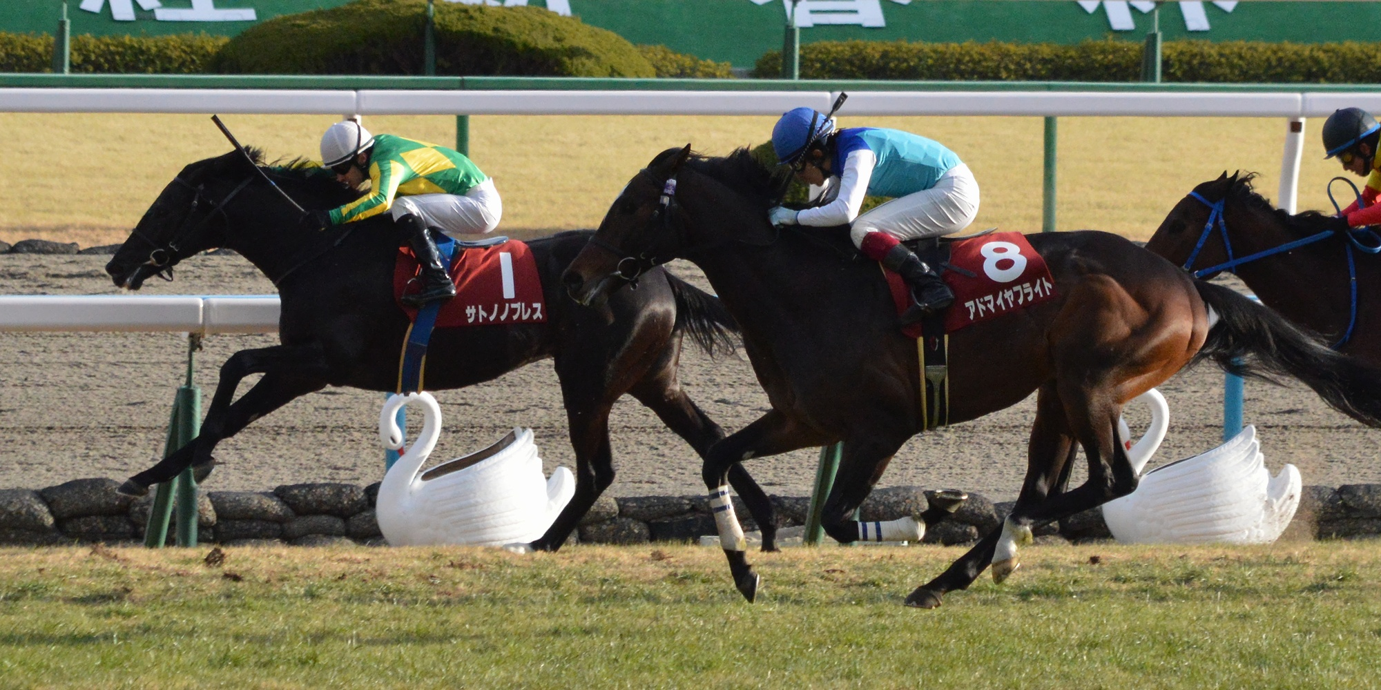 Japanese race horse Satono Noblesse at Kyoto racecourse.